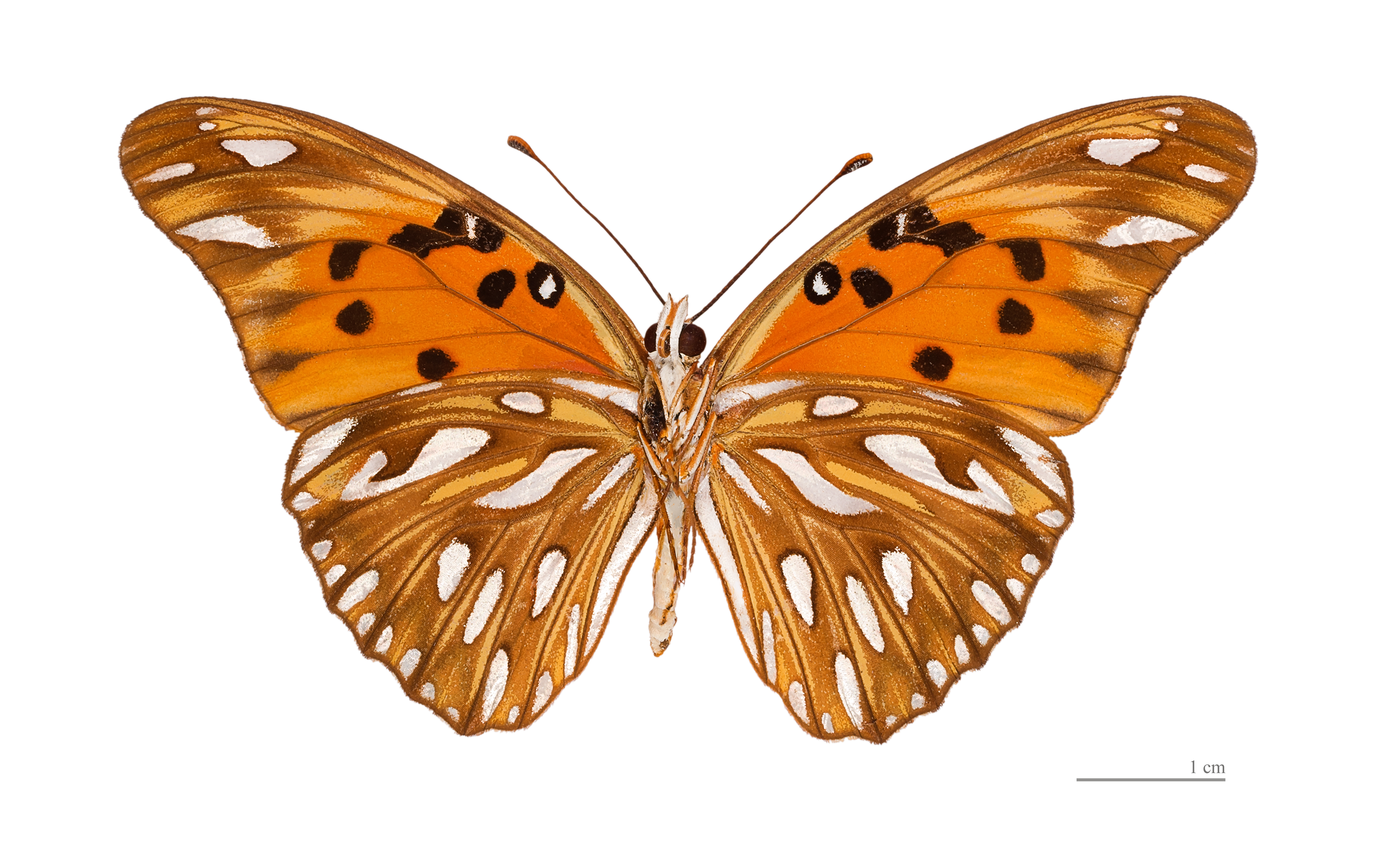 ♂ - △ Ventral side Locality : Vidal (GF), Cayenne, French Guiana.